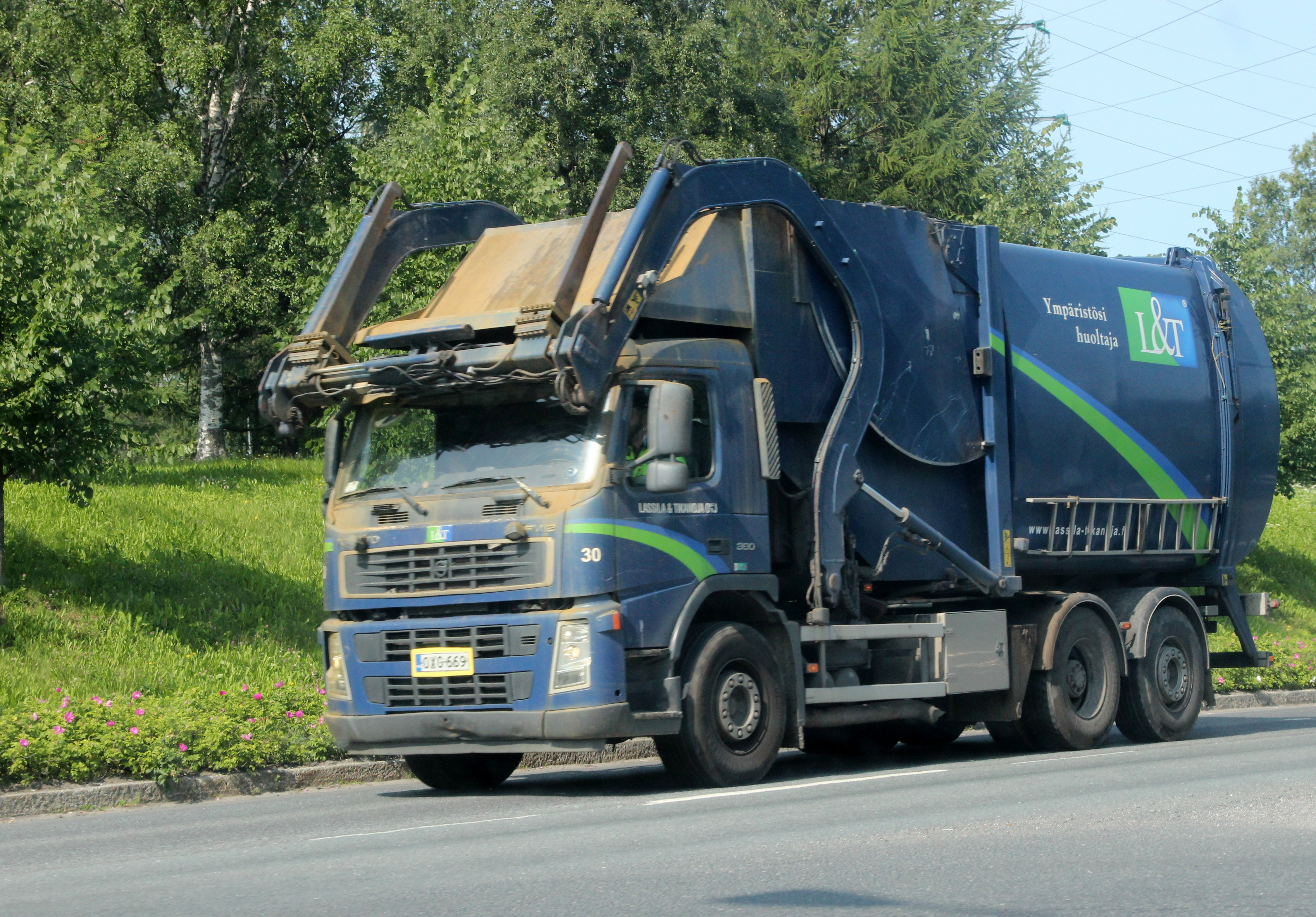 A garbage truck of the Lassila & Tikanoja company in Tuira, Oulu.